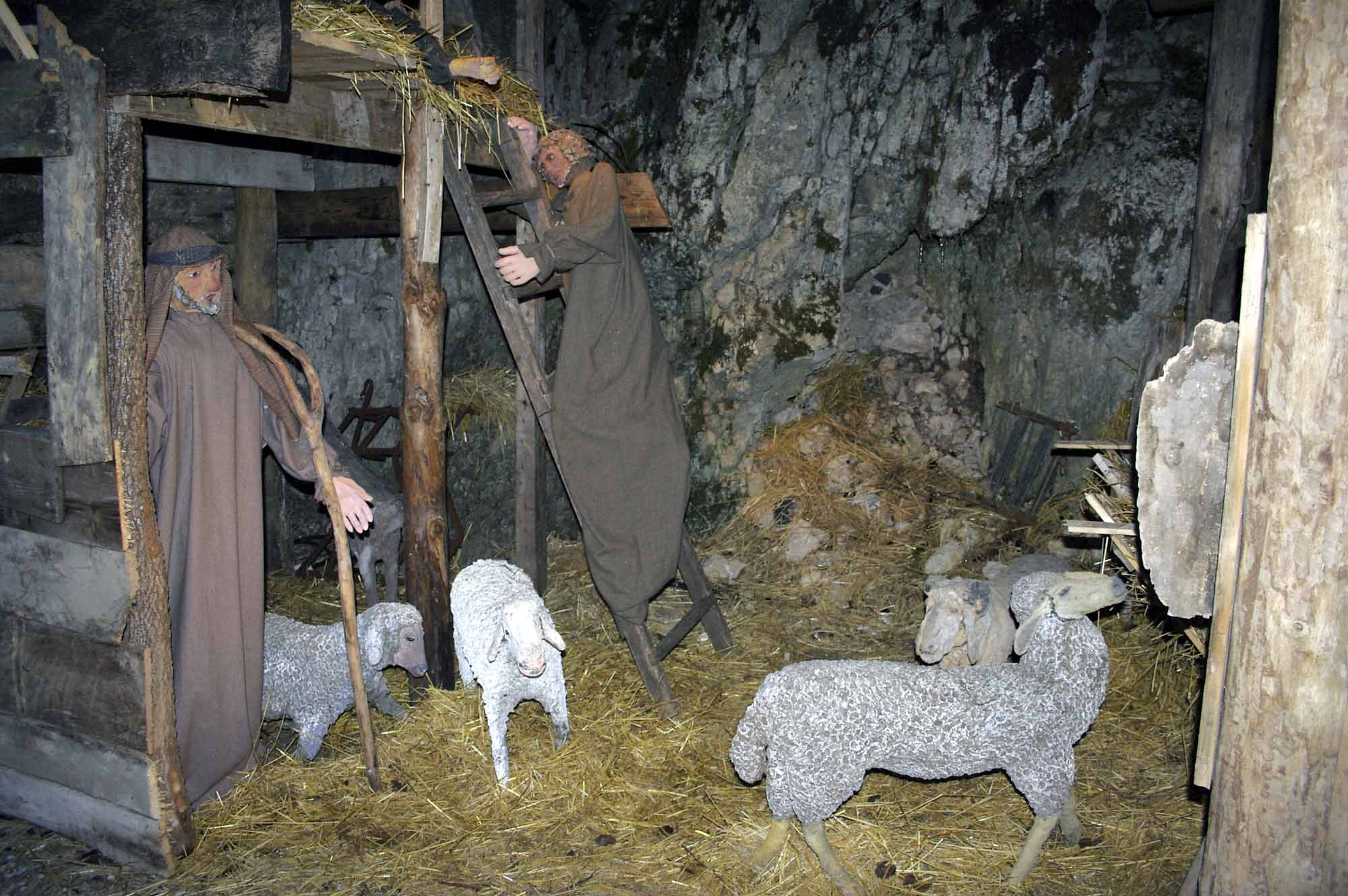 Photo (n° 17 of 27) of the crech realized in Civitella Alfedena (AQ, Italy). Date: january, 6 2006.